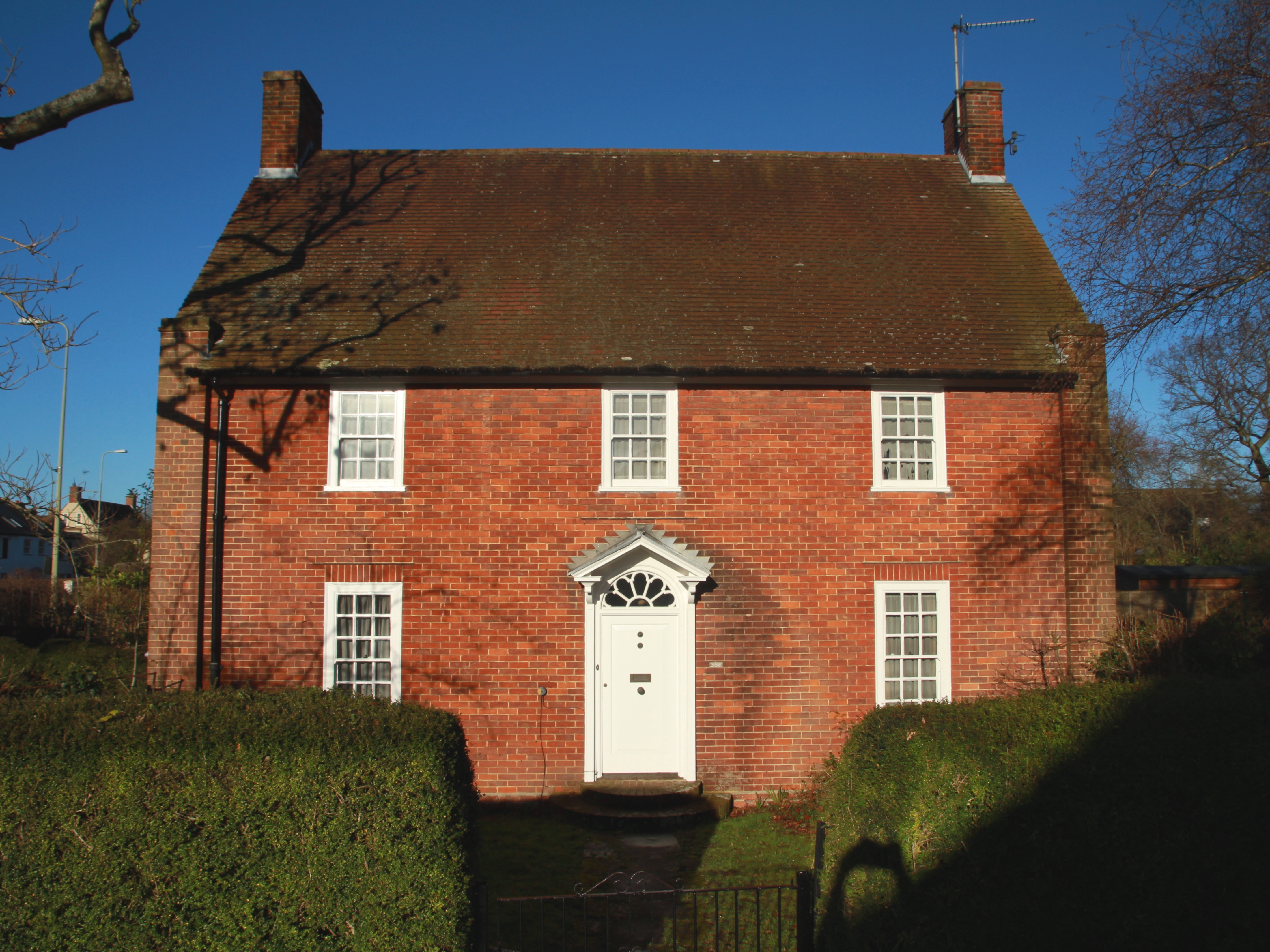 House at 358 Woodstock Road, Oxford, seen from the south. Designed by T Lawrence Dale and built as his family home.